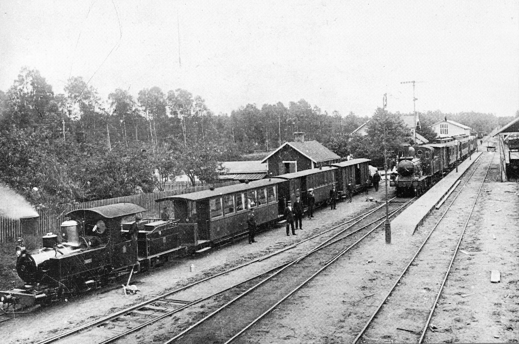 Lessebo railway station (Sweden) in 1905: The 600 mm gauge train (Kosta-Lessebo Järnväg, on the left) is ready for departure for Kosta. The 1435 mm gauge train (Carlskrona-Wexiö Järnväg, on the right) is ready for departure for Växjö.